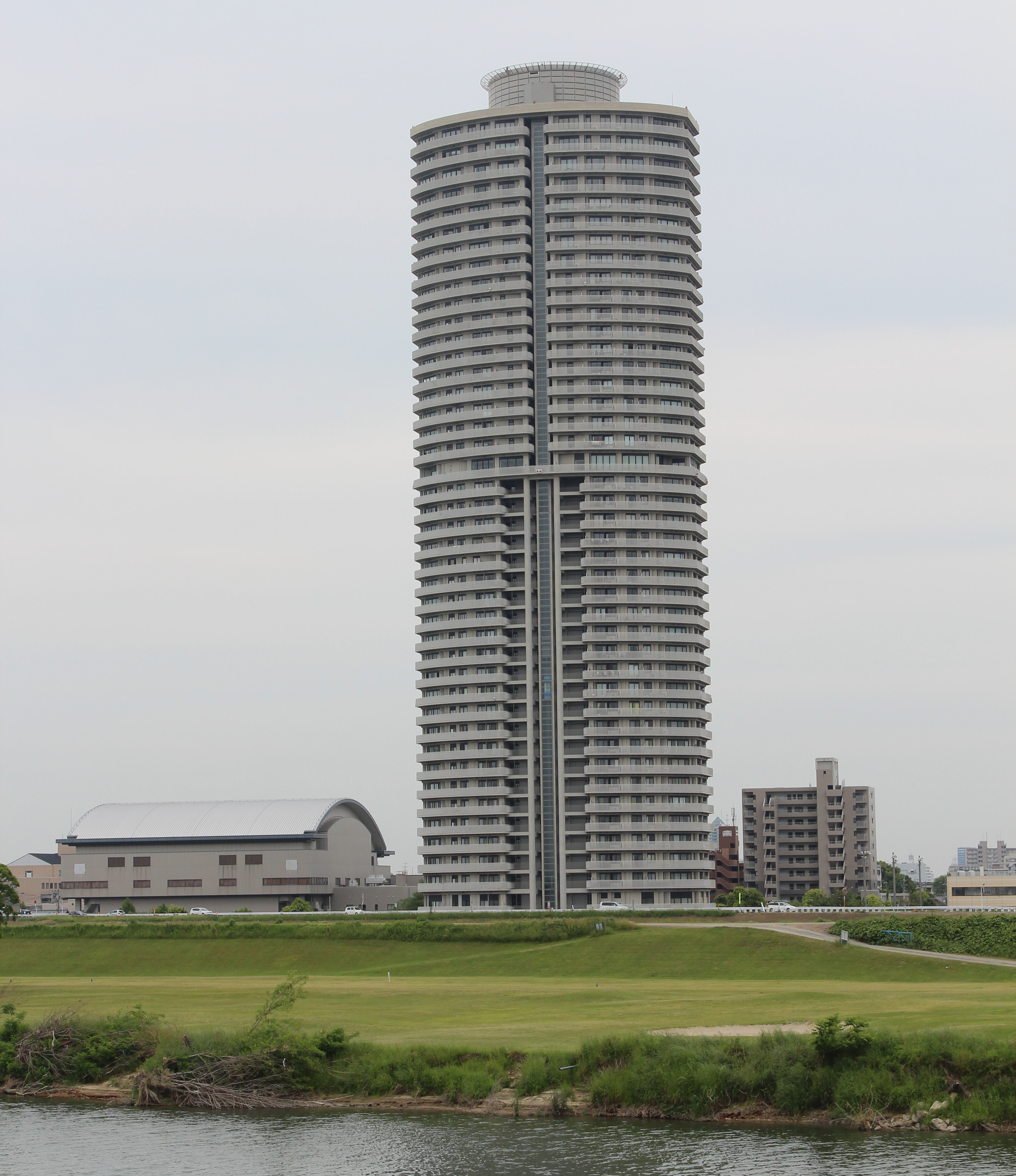 The Scene Johoku in Kita-ku, Nagoya, Japan.